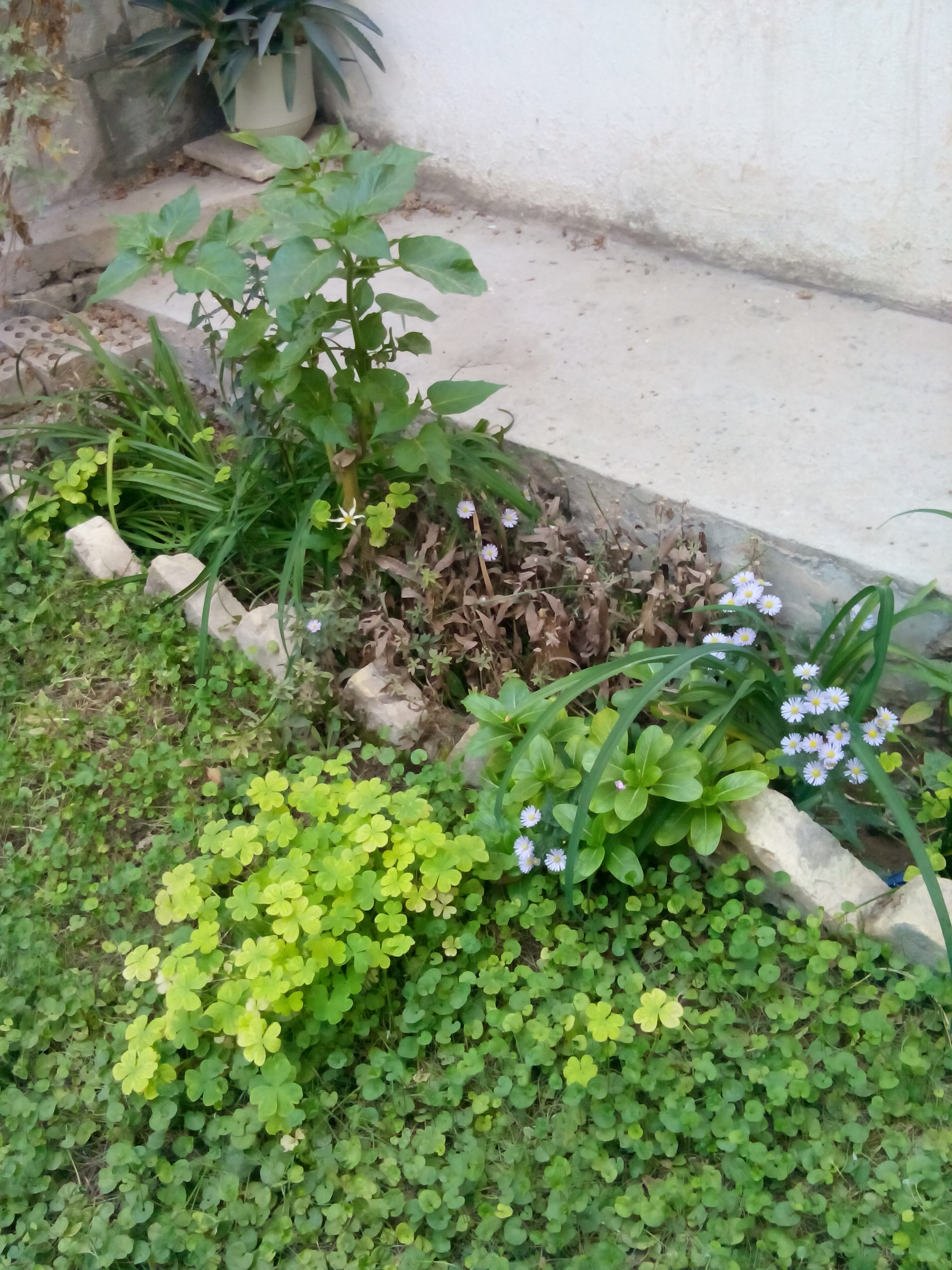 flowers in the garden, in Baghdad